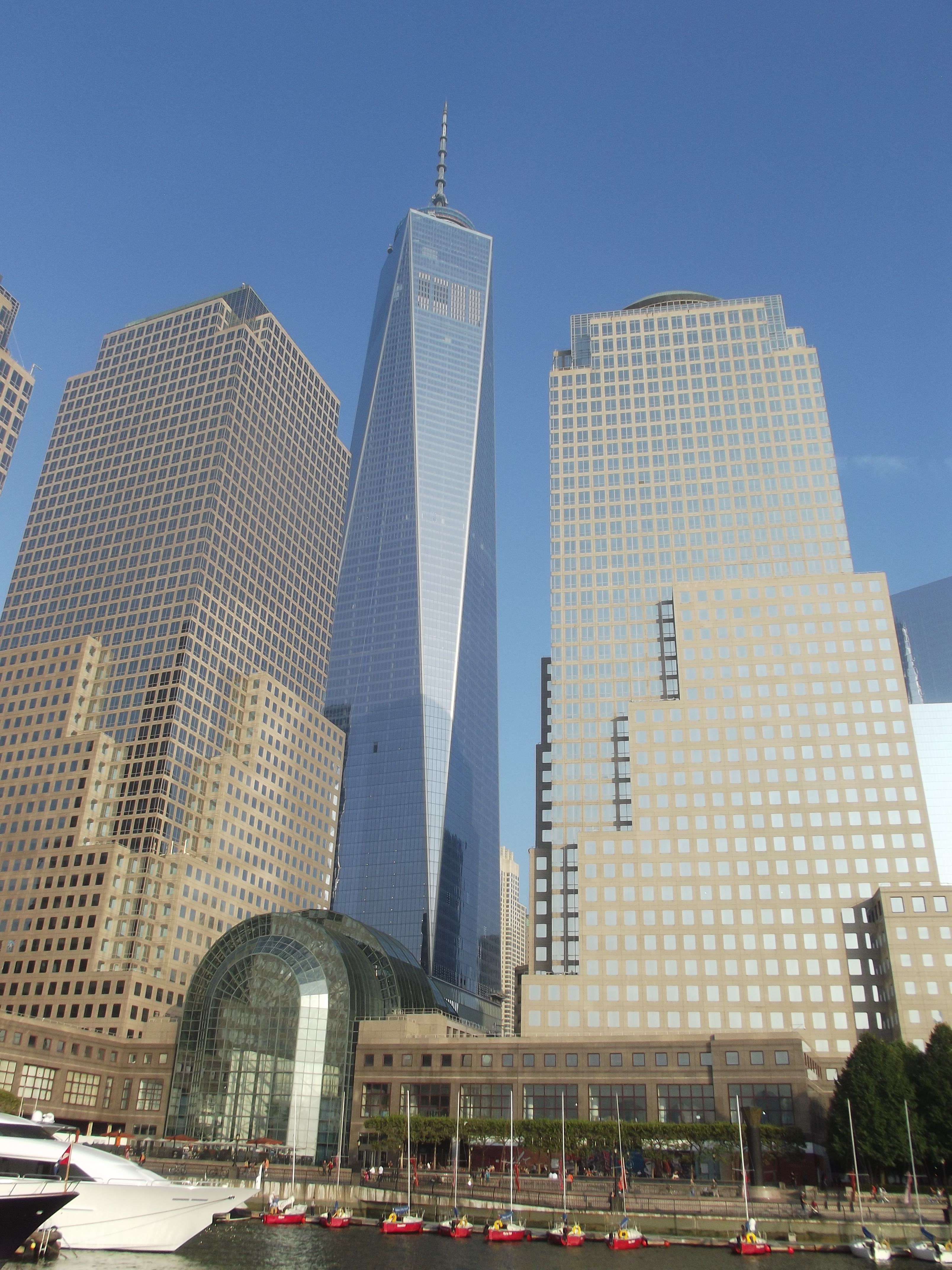 The World Trade Centre